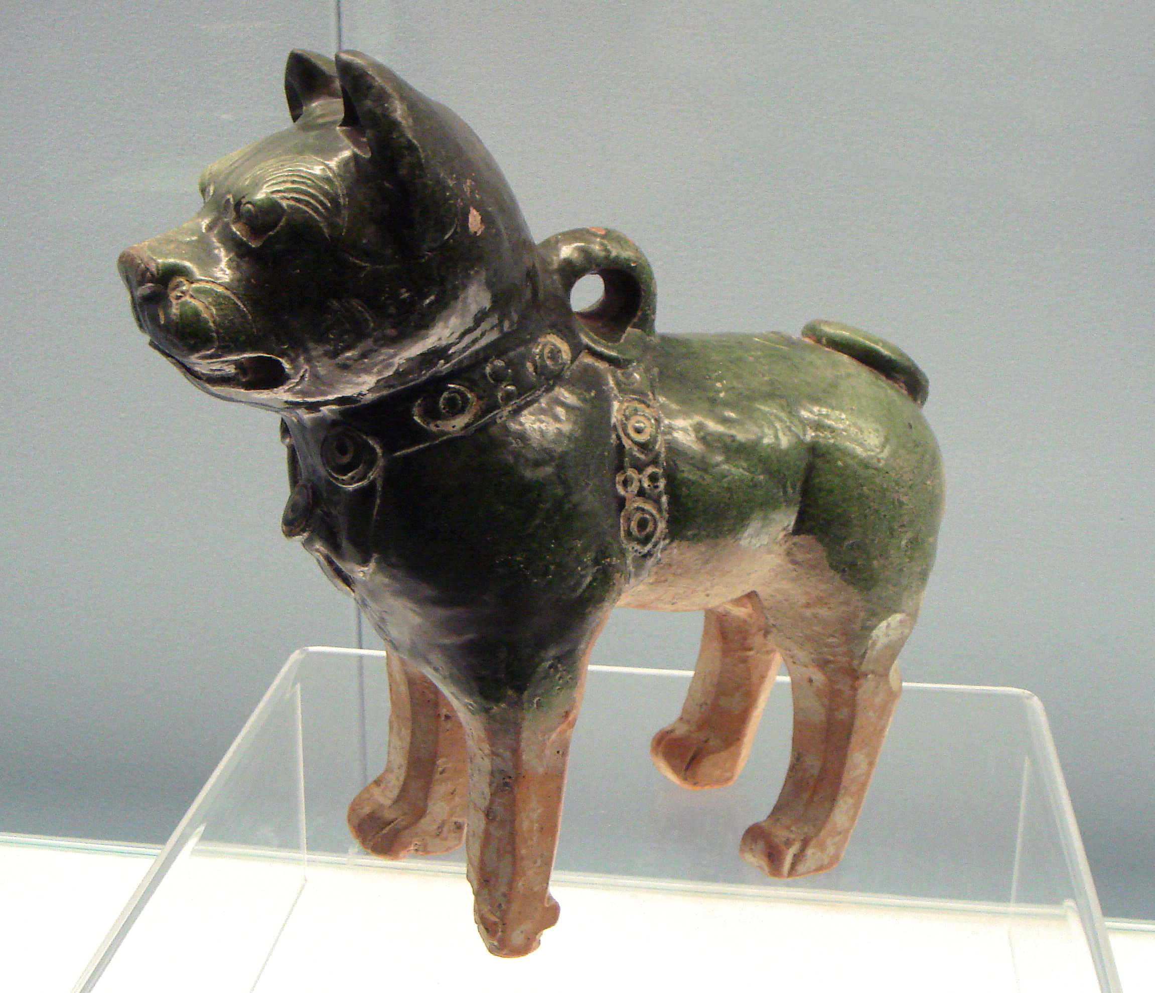 Shanghai (China) : Shanghai Museum, Green glazed pottery dog, Eastern Han (25CE, 220CE).